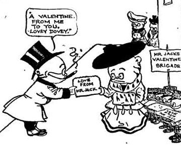 Panel from Mr. Jack by James Swinnerton, February 12, 1905; Source: [1]